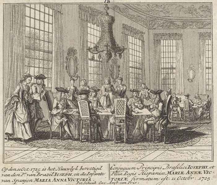 in Staten van Holland en West-Friesland